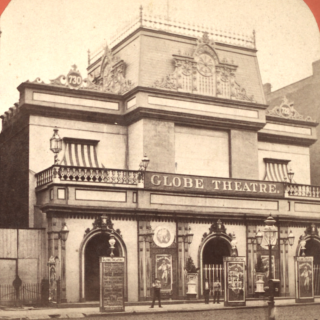 Jpg version of File:Globe Theatre, from Robert N. Dennis collection of stereoscopic views 2 - cropped.png